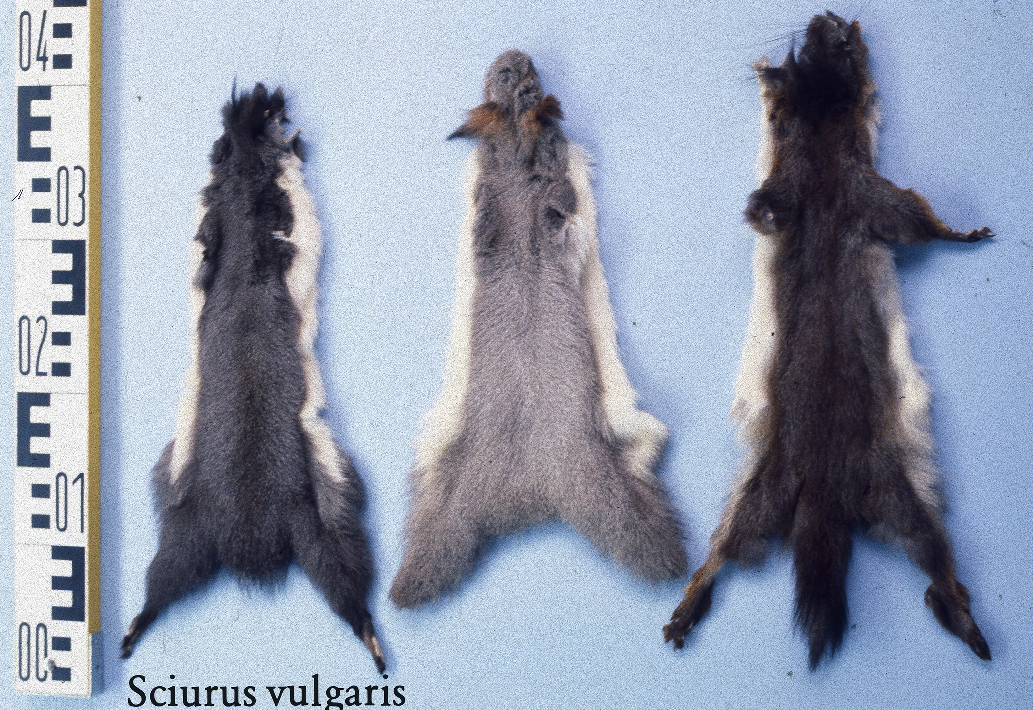 European tree squirrel fur skin (Sciurus vulgaris). Fur skin collection, Bundes-Pelzfachschule, Frankfurt/Main, Germany